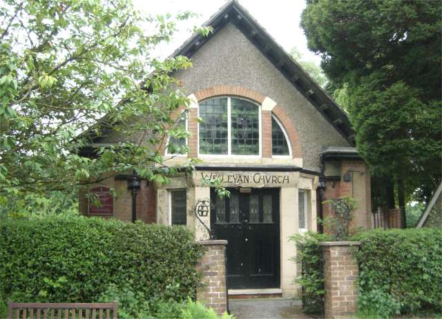 Wesleyan Methodist church in Acton, Staffordshire, seen from the northwest